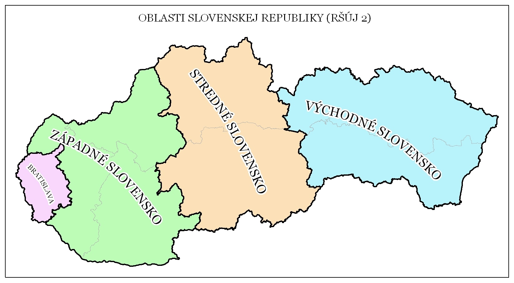 Nomenclature of territorial statistical units in Slovak Republic 2nd grade